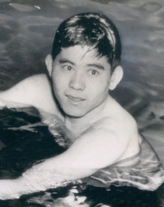 1942 Kiyoshi Nakama Ohio State Swimmer Wins At AAU Meet Press Photo